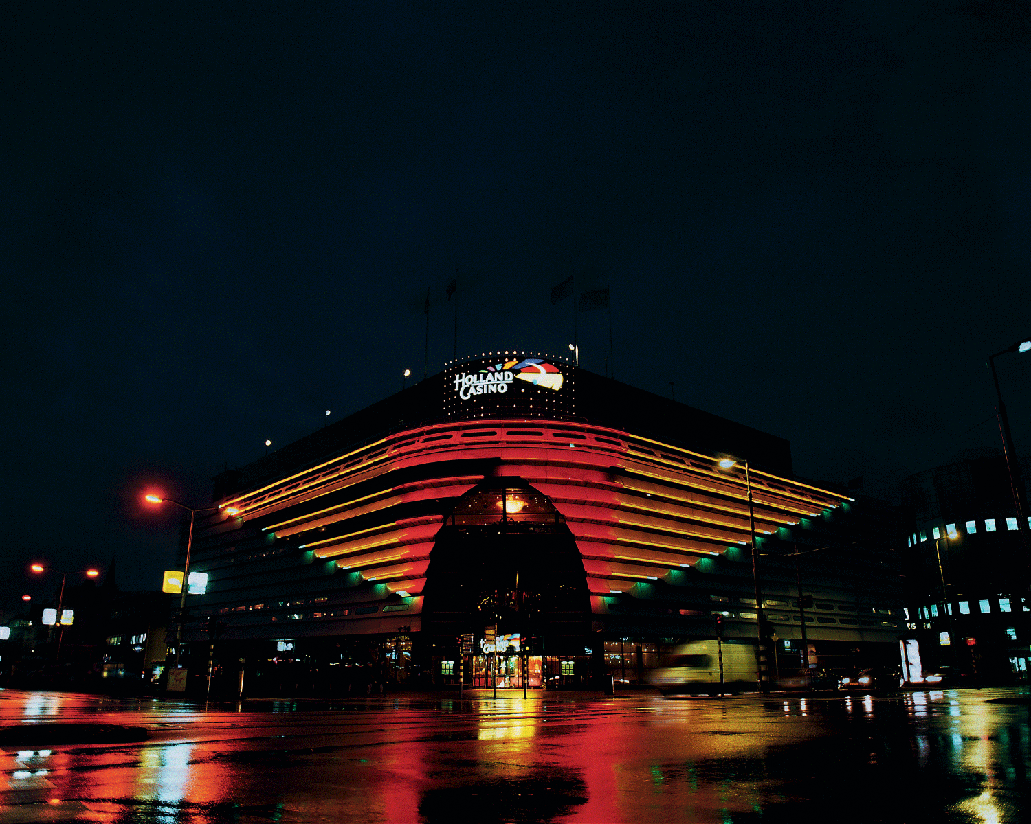 Holland Casino Scheveningen by night